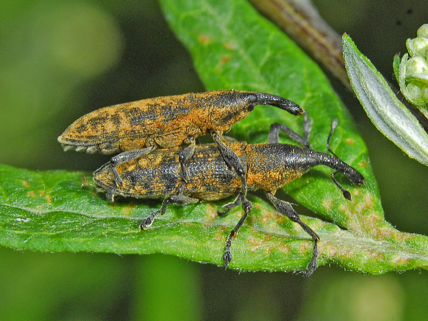 Lixus fasciculatus. Val Veny, Aosta, Italy